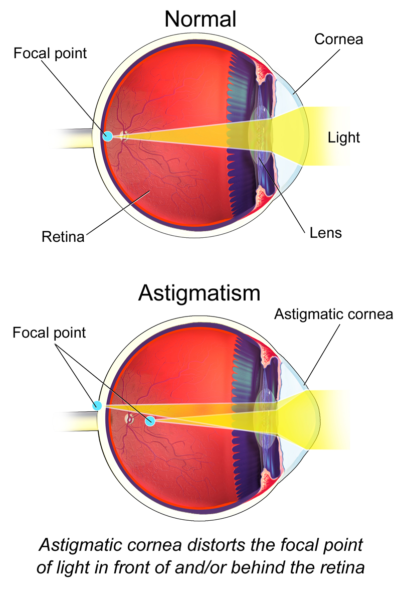 Astigmatism. See a full animation of this medical topic.